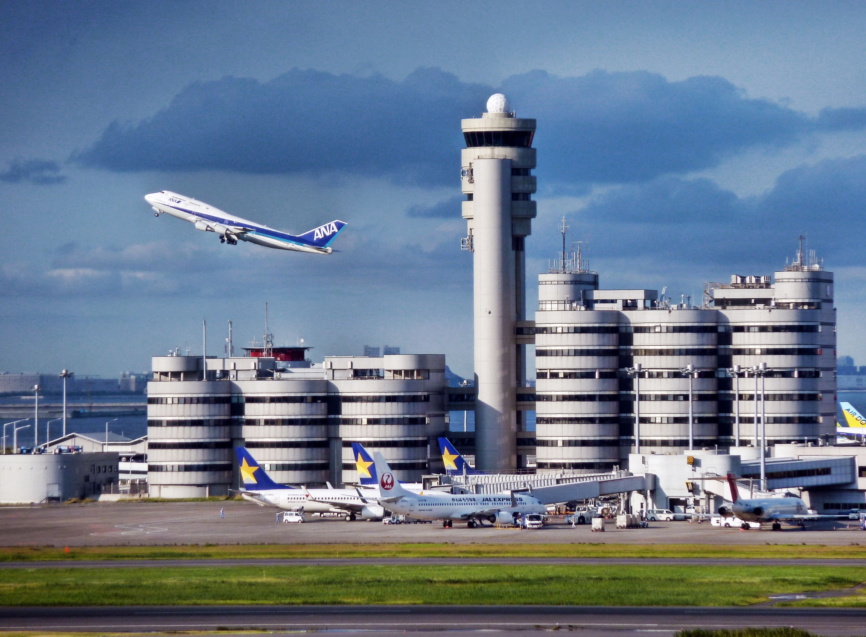 Terminal 1 complex at Haneda Airport. At the background: Boeing 747-400 in ANA livery taking off the runway 16L